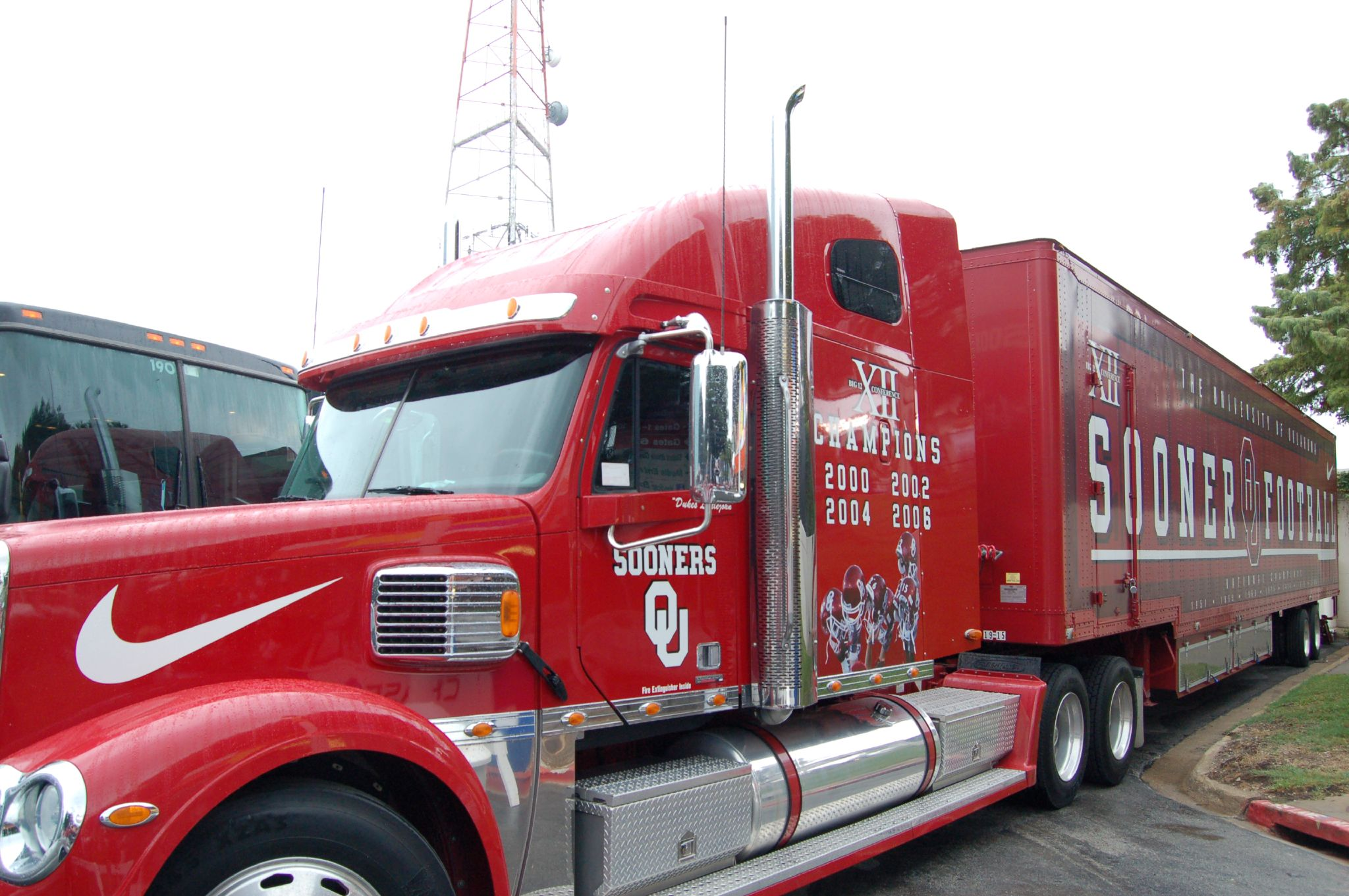 Oklahoma Sooners bus at the 2007 Red River Shootout